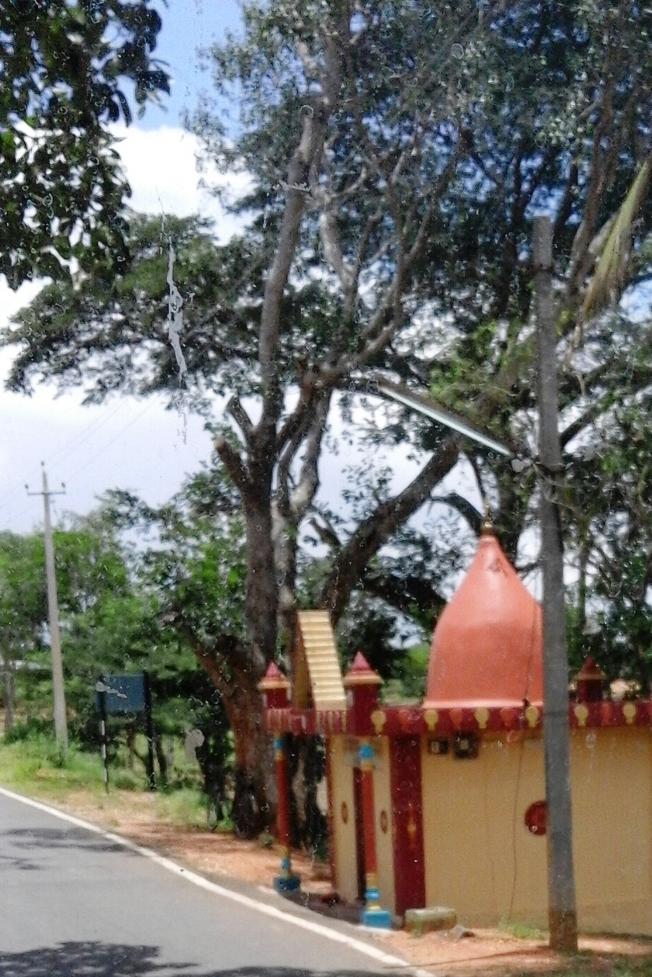 Alambur village or Basavanapura, Nanjangud to T.Narasipura Road, Mysore district, Karnataka state, India.